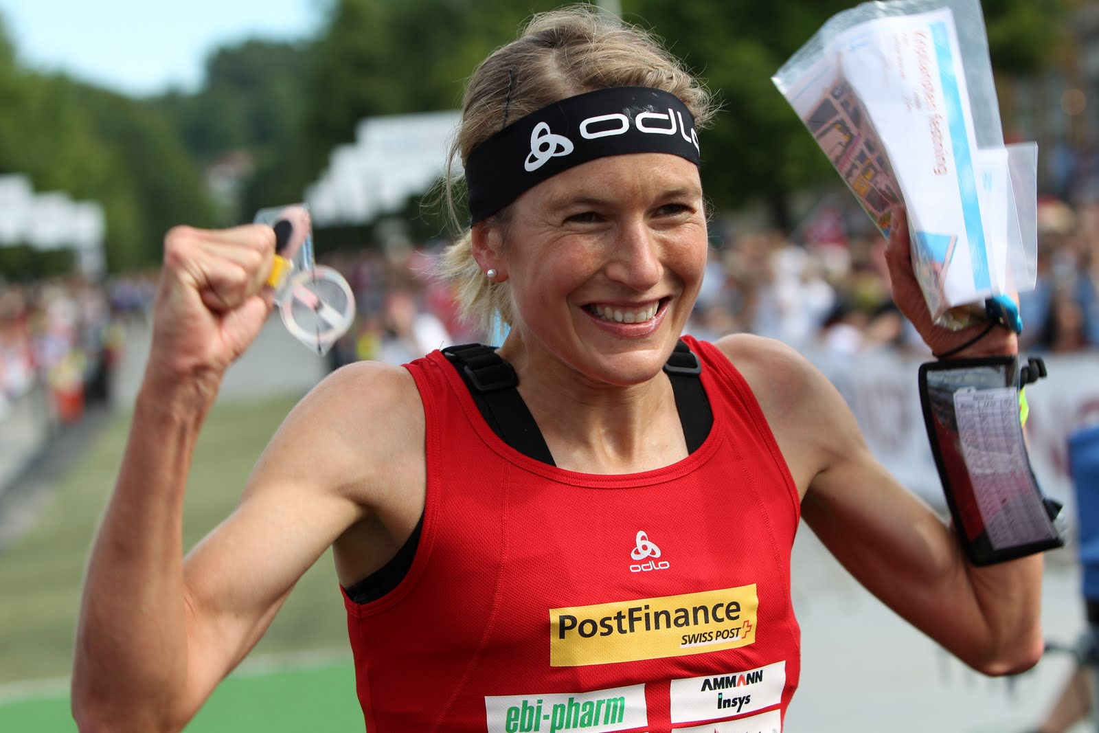 Simone Niggli-Luder at World Orienteering Championships 2010 in Trondheim, Norway